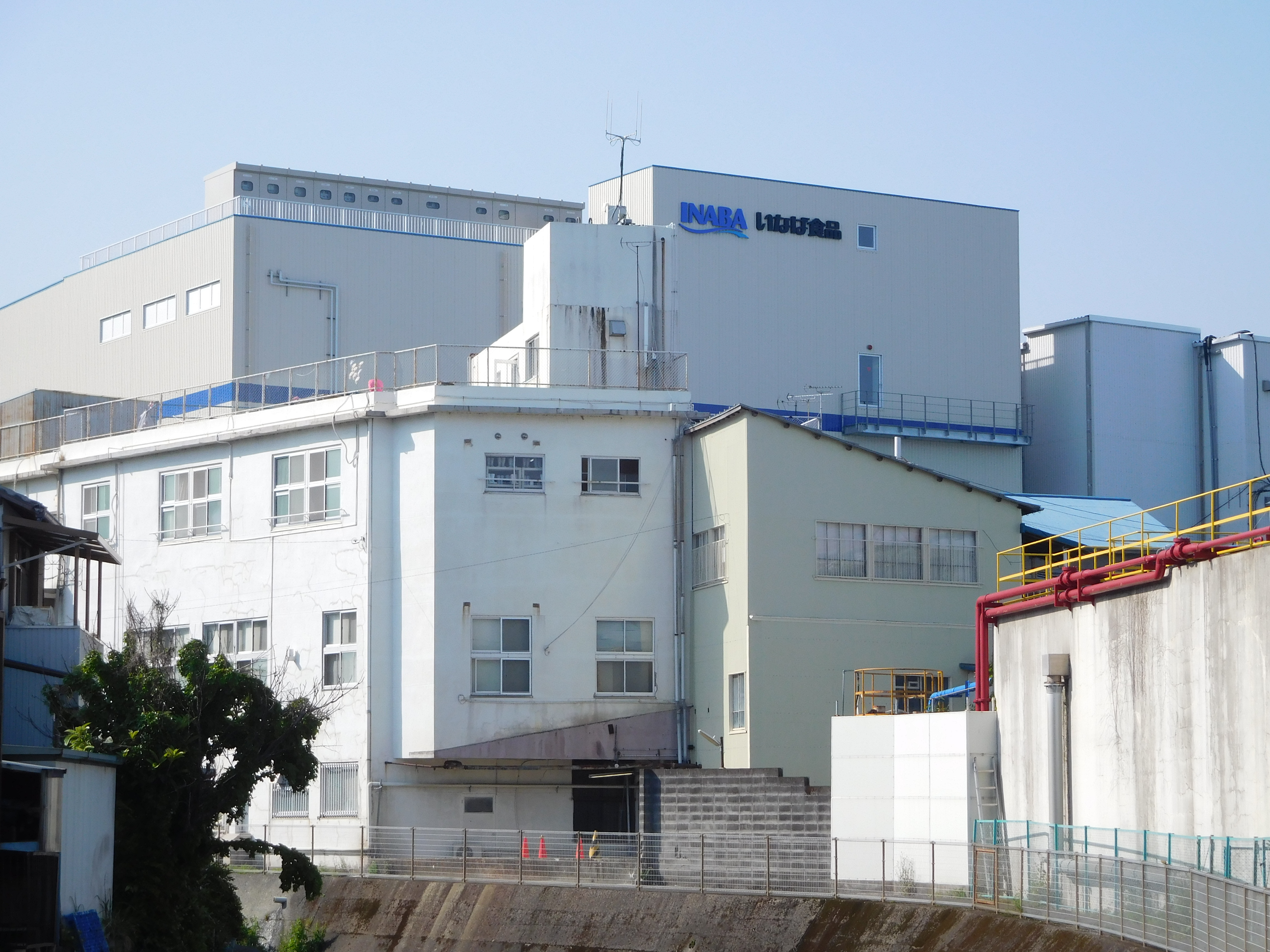 This is Shizuoka plant of Inaba Foods in Shimizu-ku, Shizuoka, Japan.